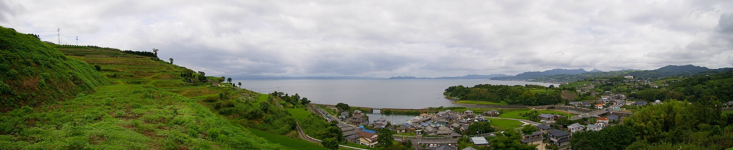 Higashi-Sonoki town Panoramaview